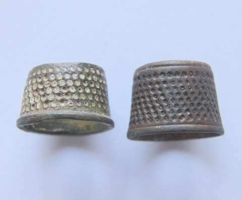 Thimbles, 16th centry Netherlands